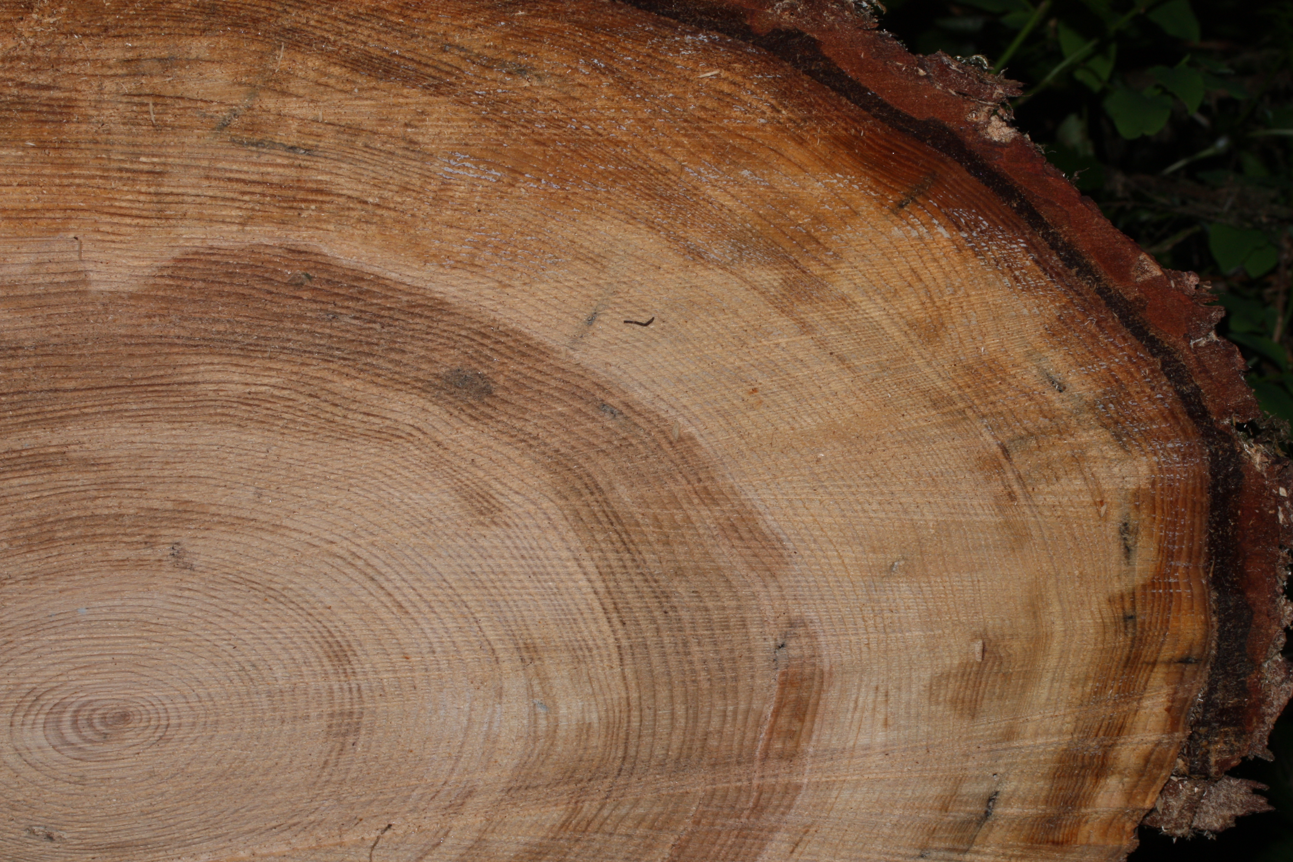 Western Hemlock, Pacific Hemlock, Lowland Hemlock cross-section; diameter about 0.4 m